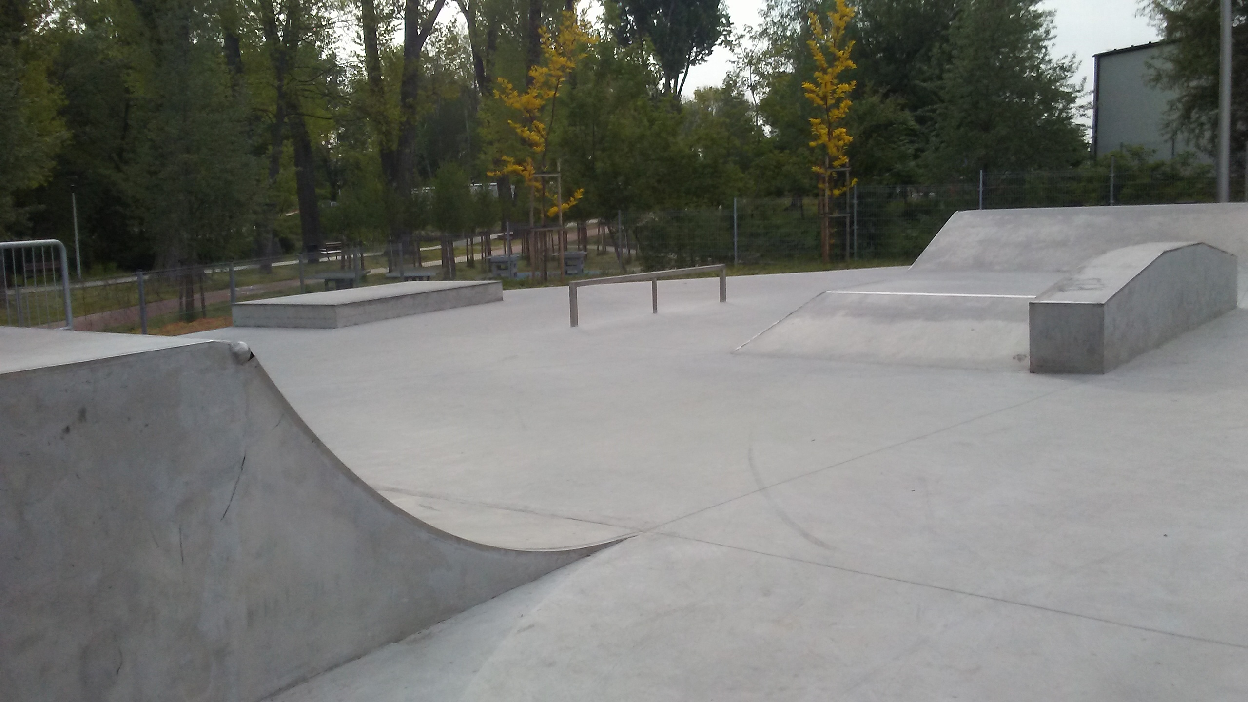 Community center (pol. Centrum Animacji Społecznej), skatepark in Tomaszów Mazowiecki. Farbiarska Street